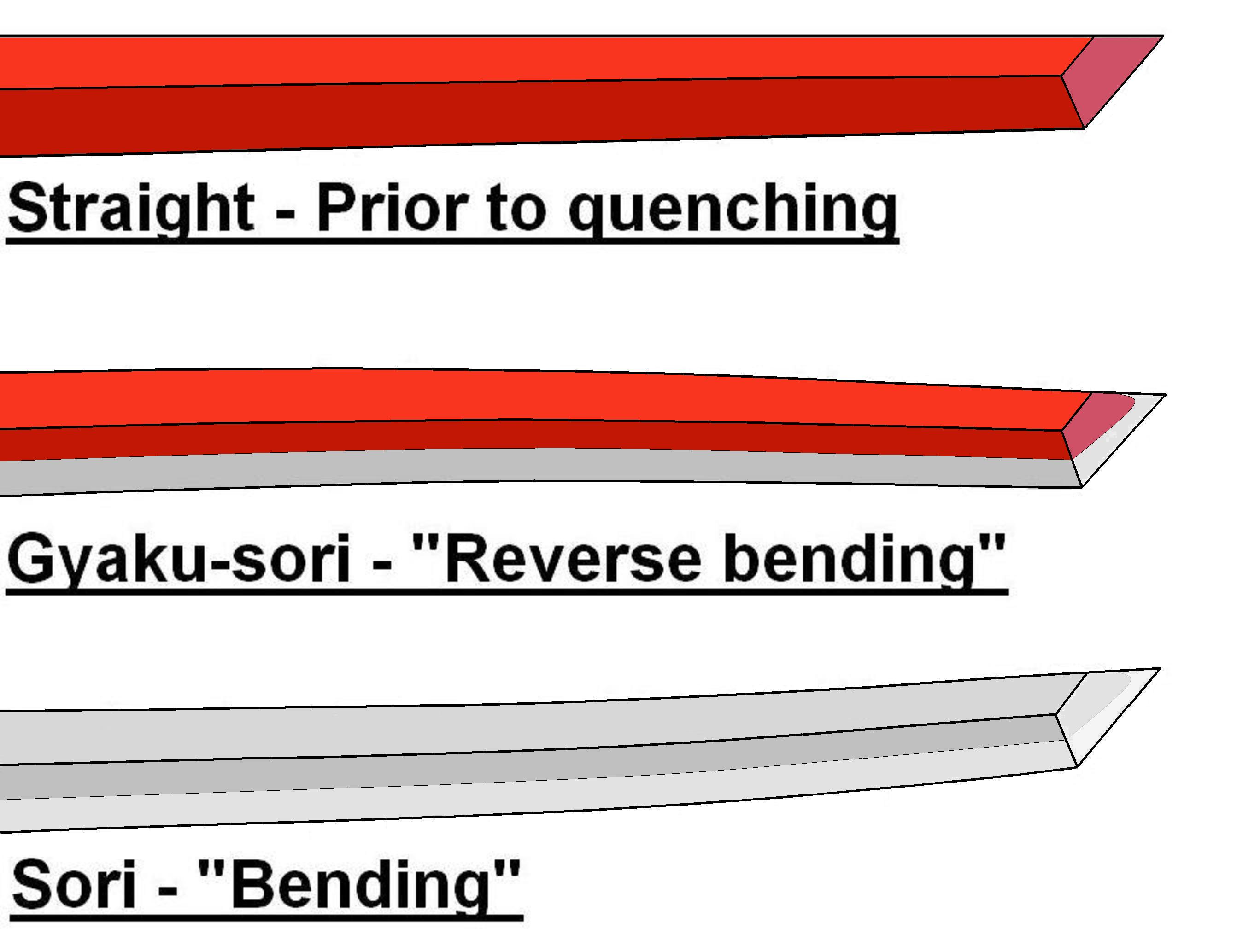 Diagram of how a katana bends during quenching. The swords begins straight, but then curves toward the edge immediately after quenching, Once the insulated part of the blade begins to cool, it curves the opposite direction, away from the edge.